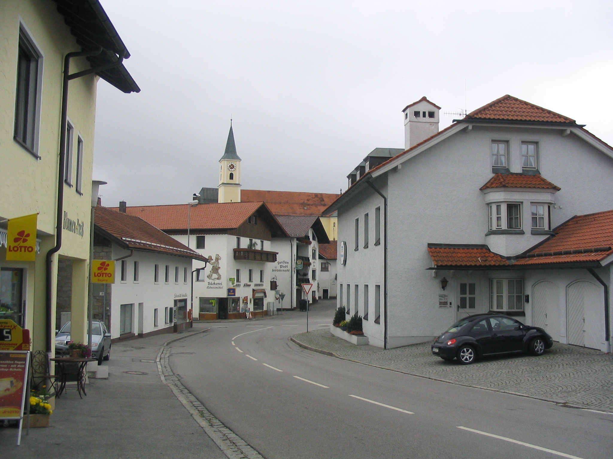 Bischofsmais, general view of Fahrnbacher Straße from the intersection Bischof-Freundorfer-Straße facing south. In background St James Parish Church.